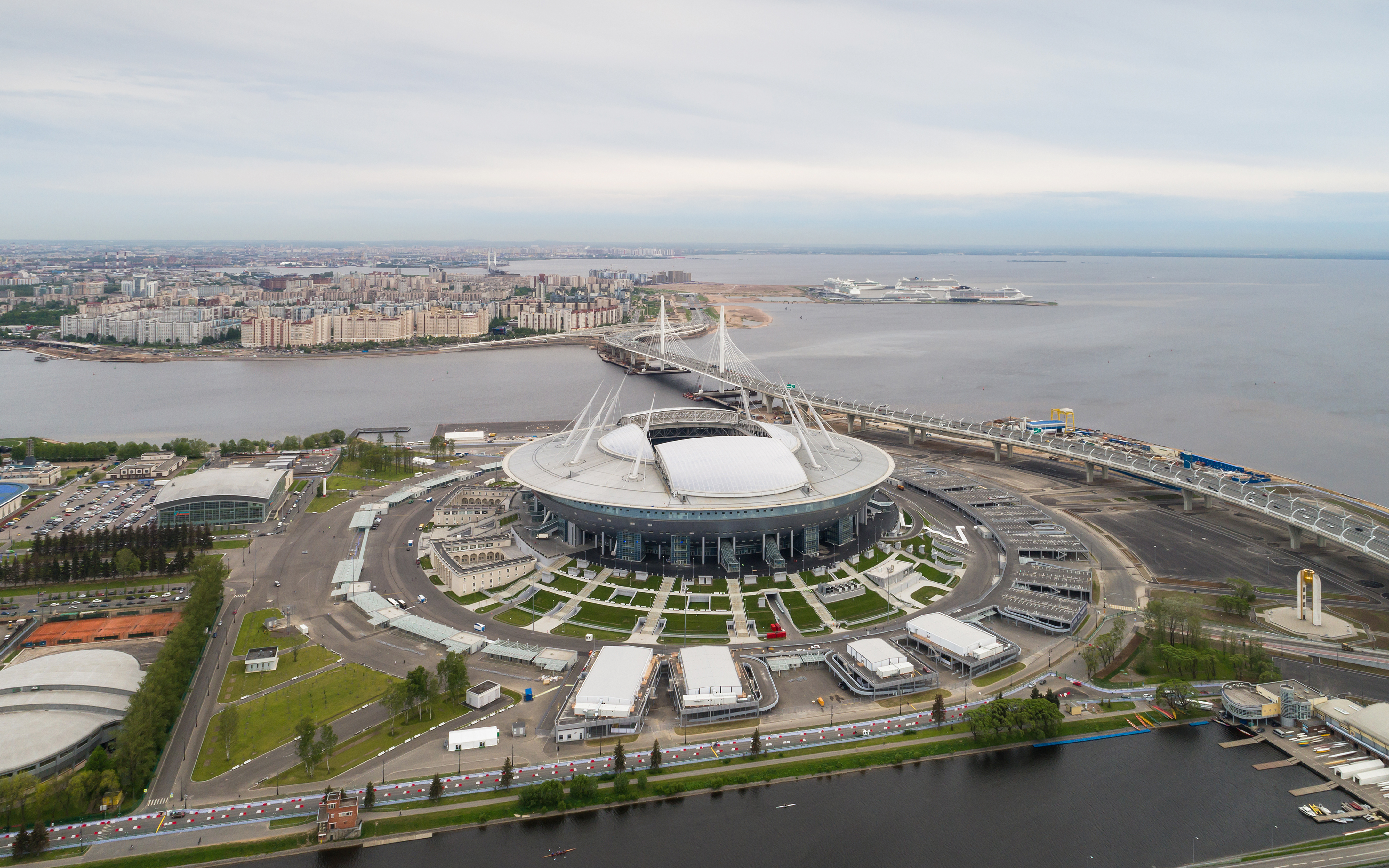 Aerial photo of Krestovsky Stadium in Saint Petersburg (Russia).